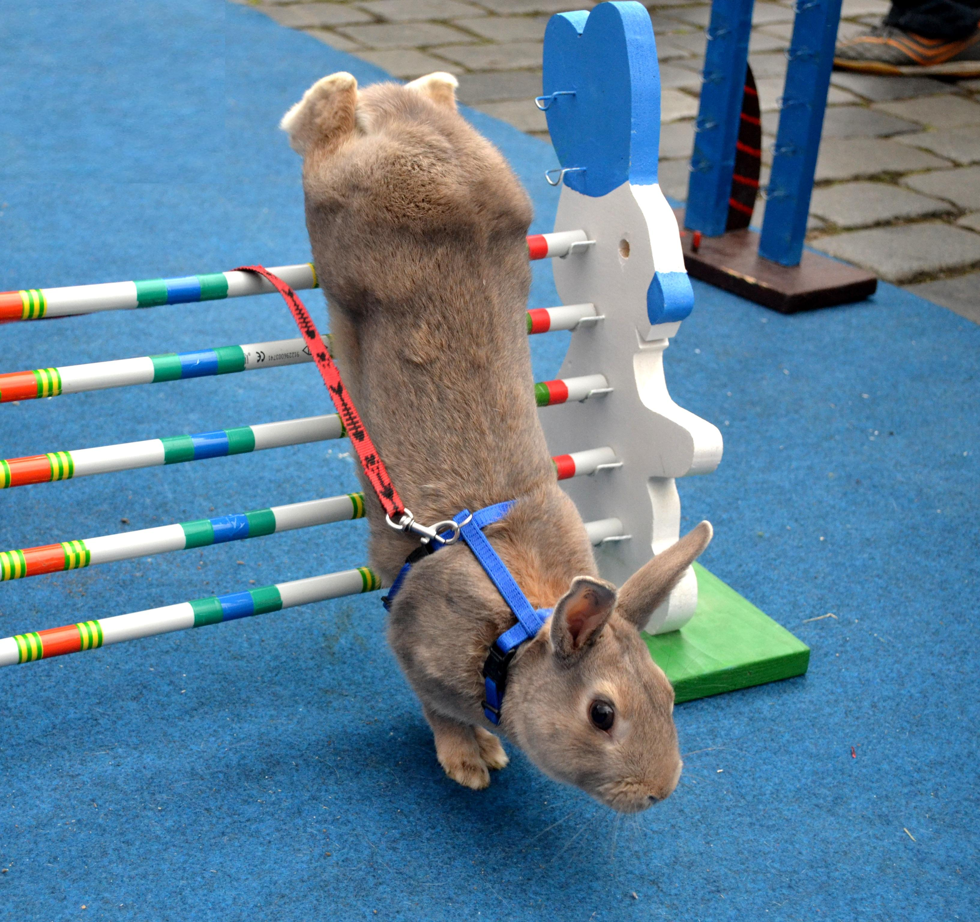 Races of rabbits, Old Town Square, Prague, Czech Rep.